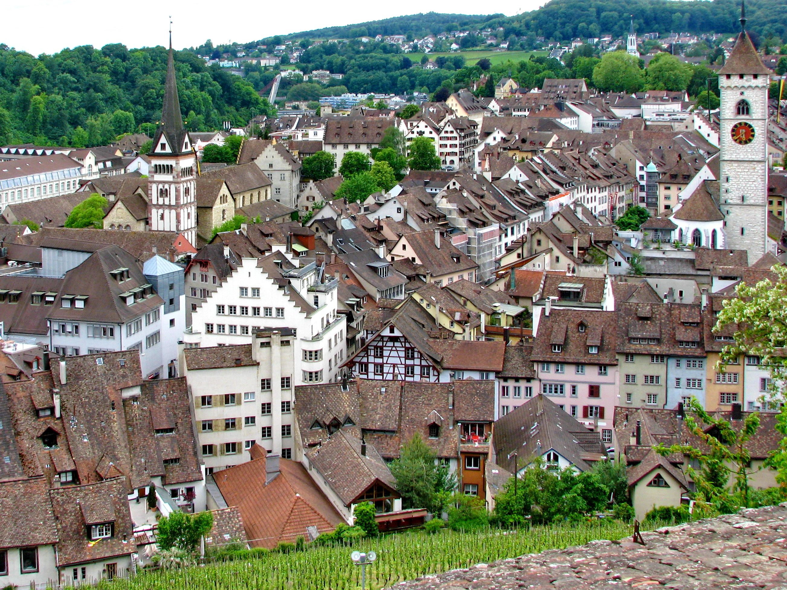 Schaffhausen (Switzerland) as seen to the west from Munot